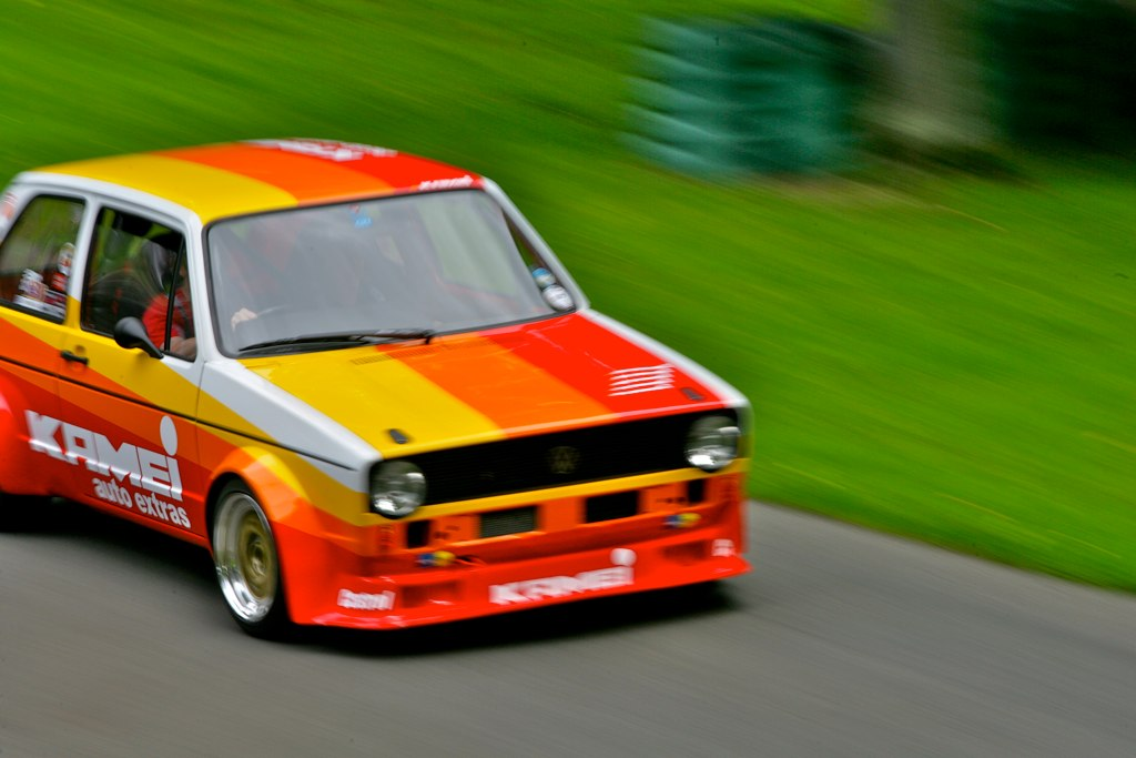 VW Golf mk1 with Kamei Body Kit. In 1953 Karl Meier, one of the first engineers with the Volkswagen factory, designed the first spoiler for a road car. His idea was enthusiastically recognized, especially by high performance enthusiasts.